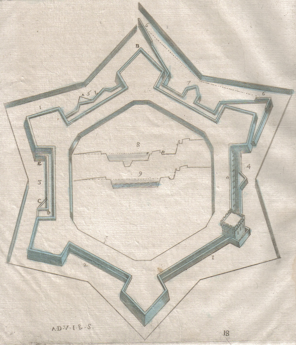 Scansione di una stampa, XVII secolo di mia proprietà - scan of a Copper Plate Engraving, 17° century, Owned by the author.